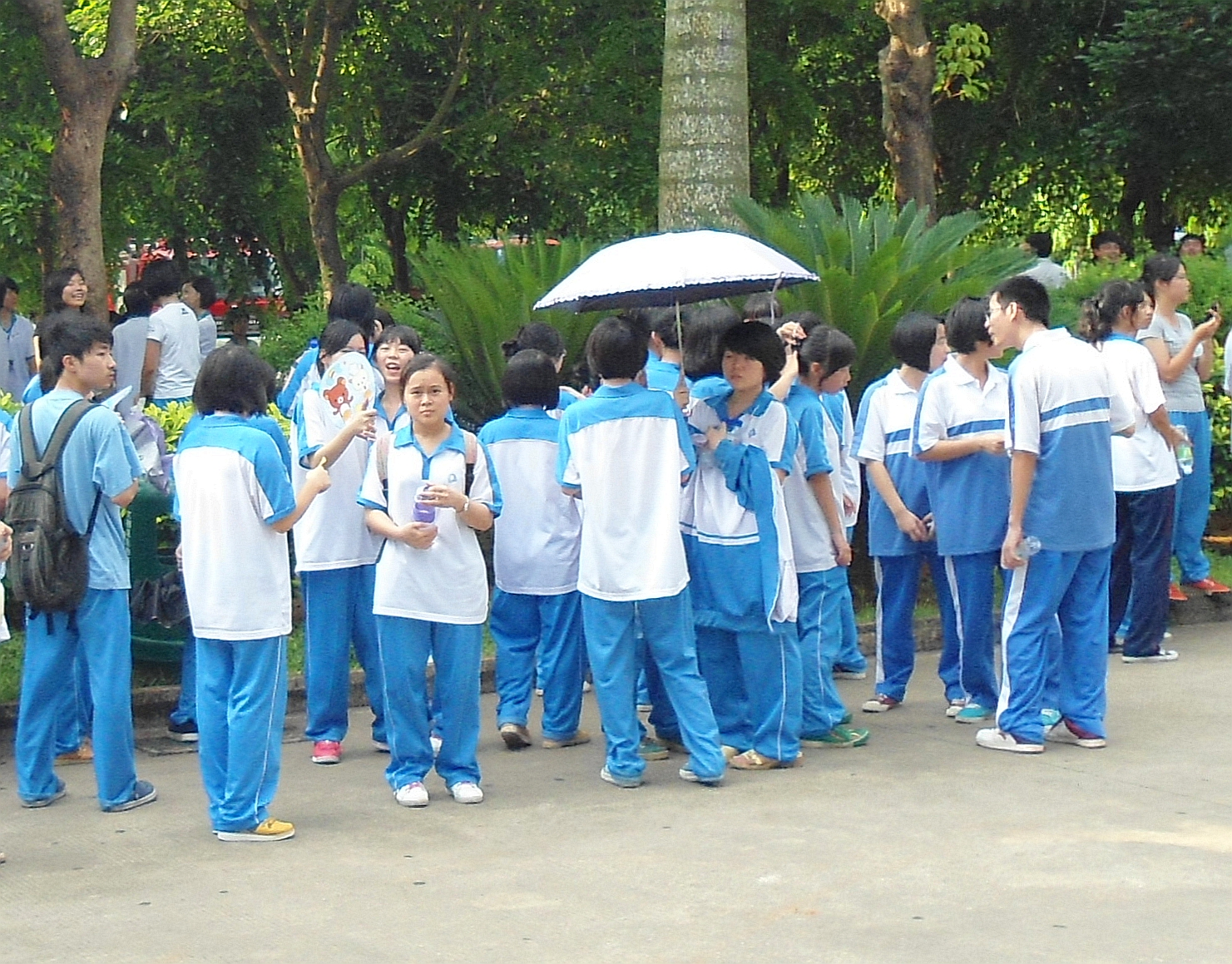 Students wearing school uniforms, Haikou City, Hainan Province, China